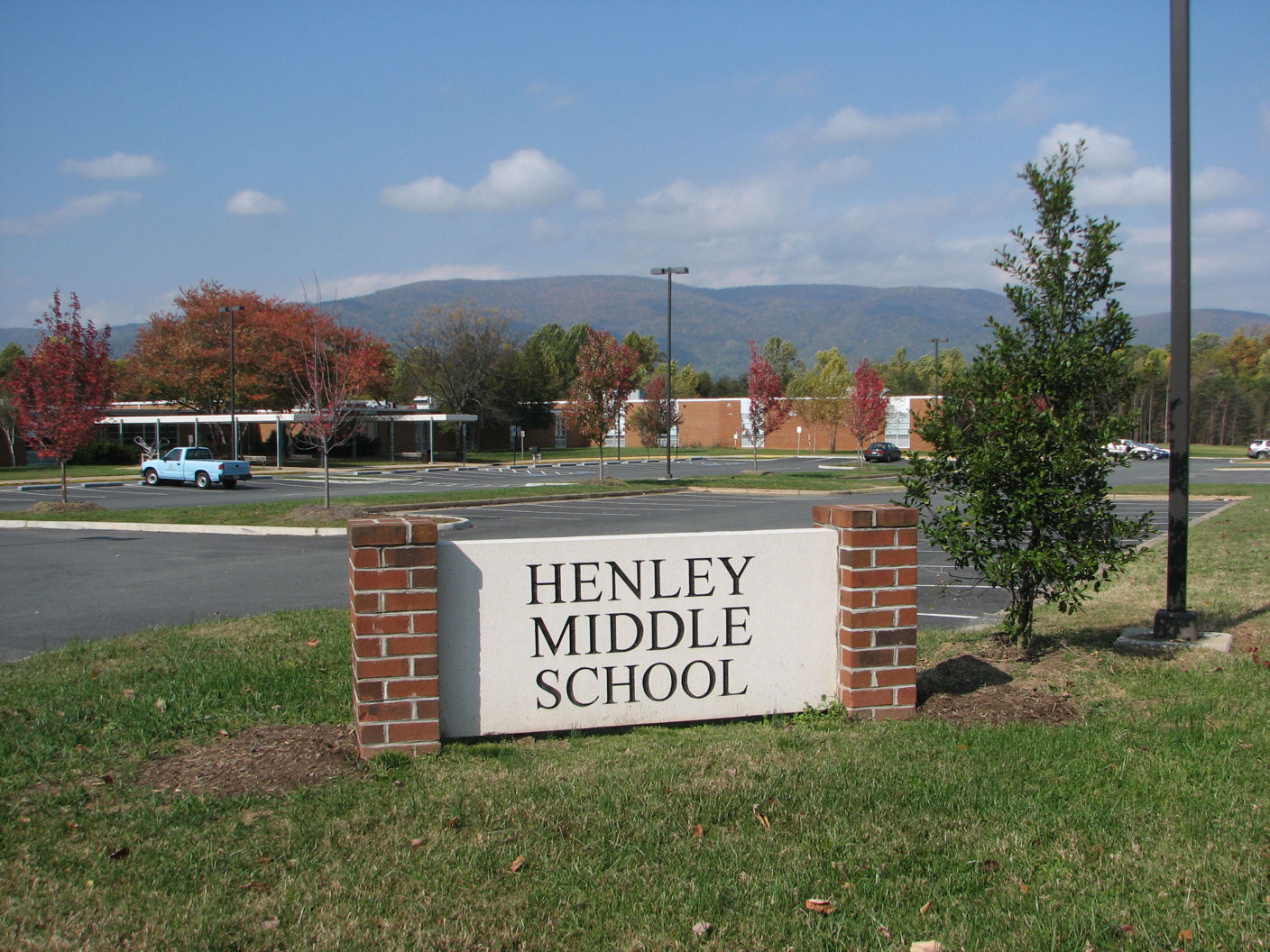 Photograph of sign of J. T. Henley Middle School in Crozet